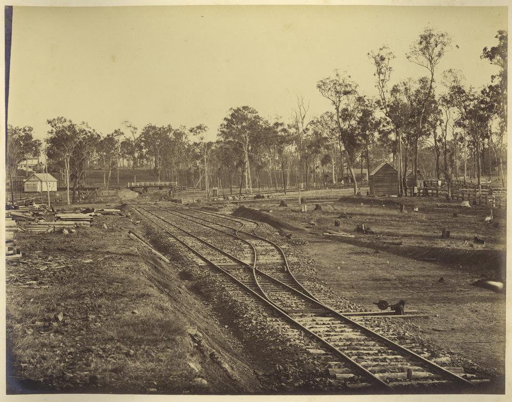 Tiaro Railway Station on the Maryborough Railway line Newly built station and other construction. Ground is covered by newly milled lumber.